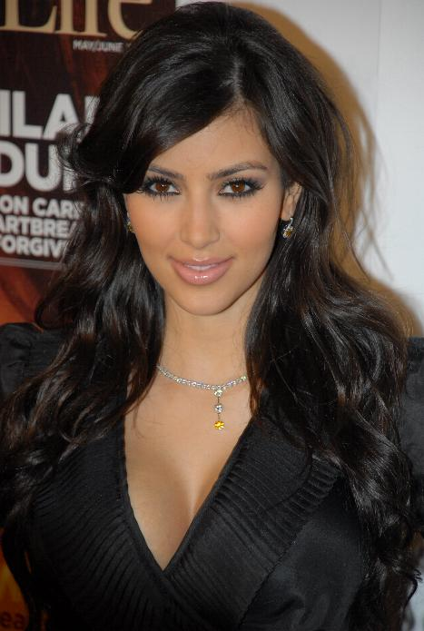 Kim Kardashian at the Seventh Annual Hollywood Life Magazine Awards.